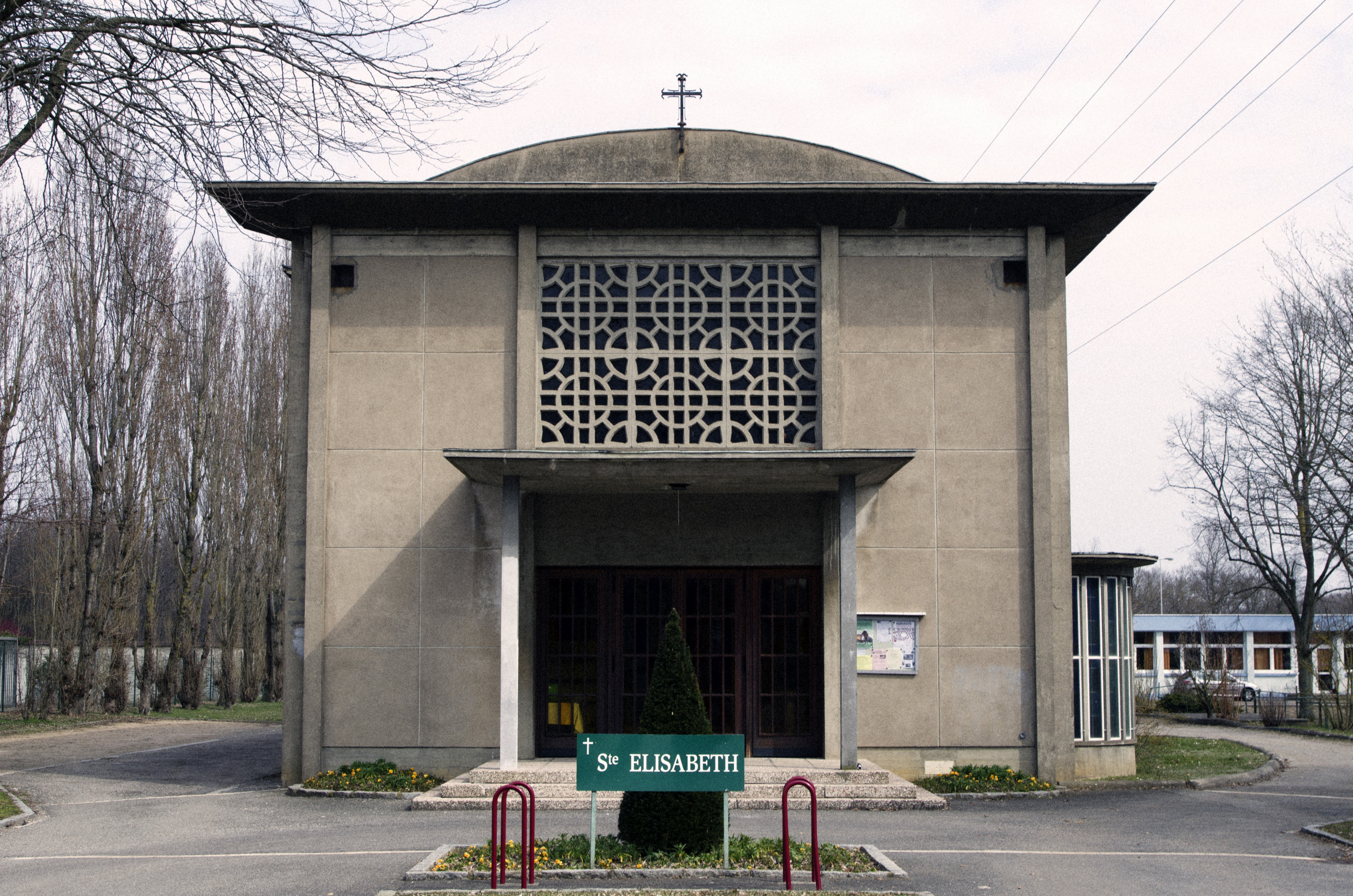 Sainte Elisabeth of Kingersheim, alsacian church.